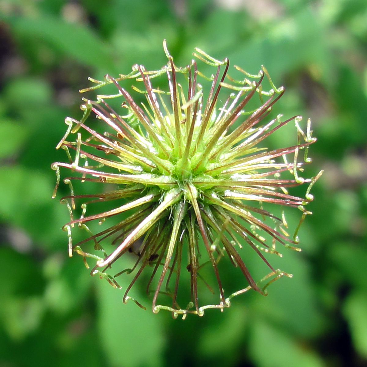 Geum urbanum (wood avens) photographed in the town of Skaneateles, New York